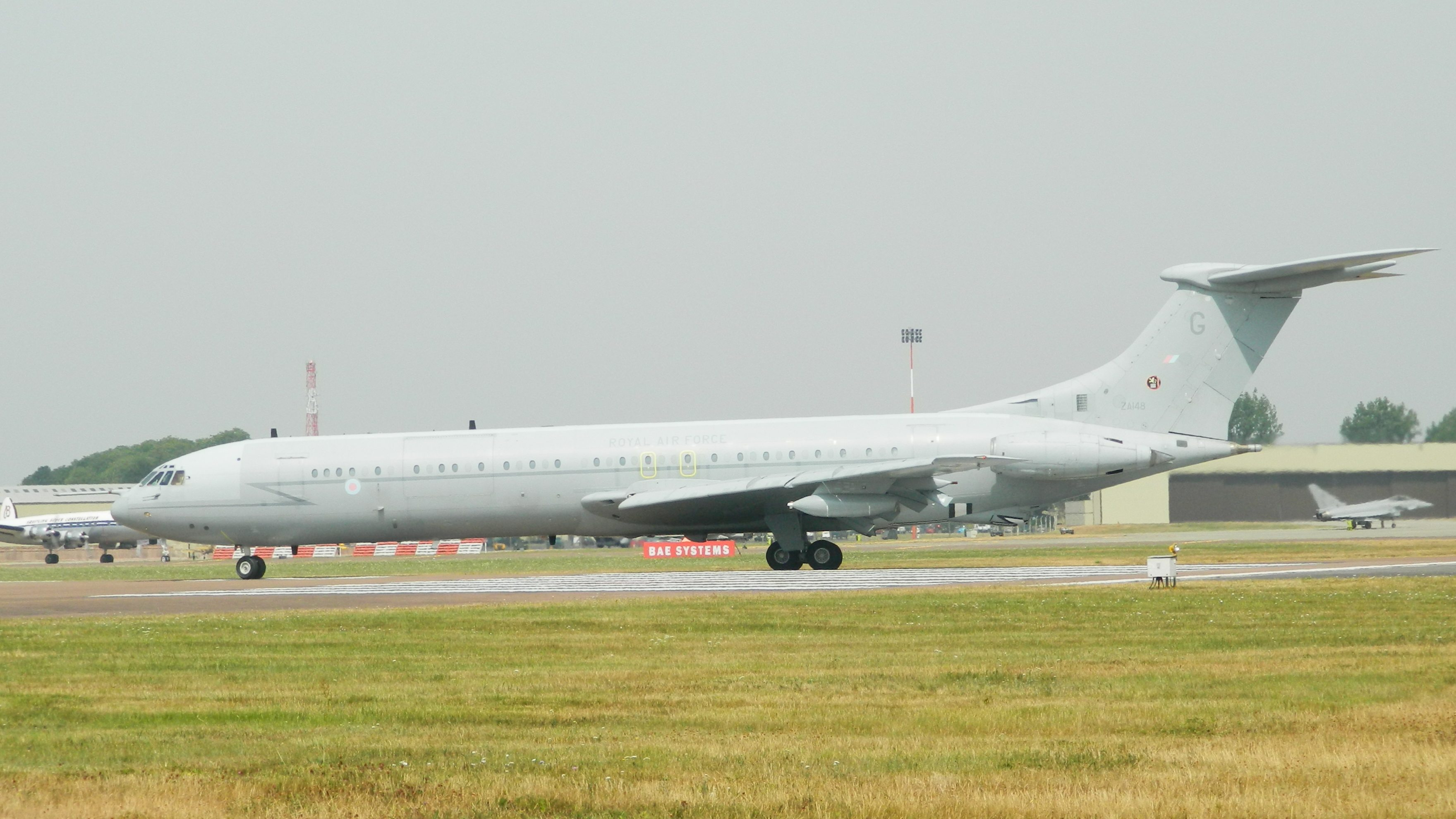 Royal Air Force 101 Squadron Vickers VC10 K3 tanker aircraft serial number ZA148 departs RAF Fairford on the Royal International Air Tattoo departure day Monday 22 July 2013